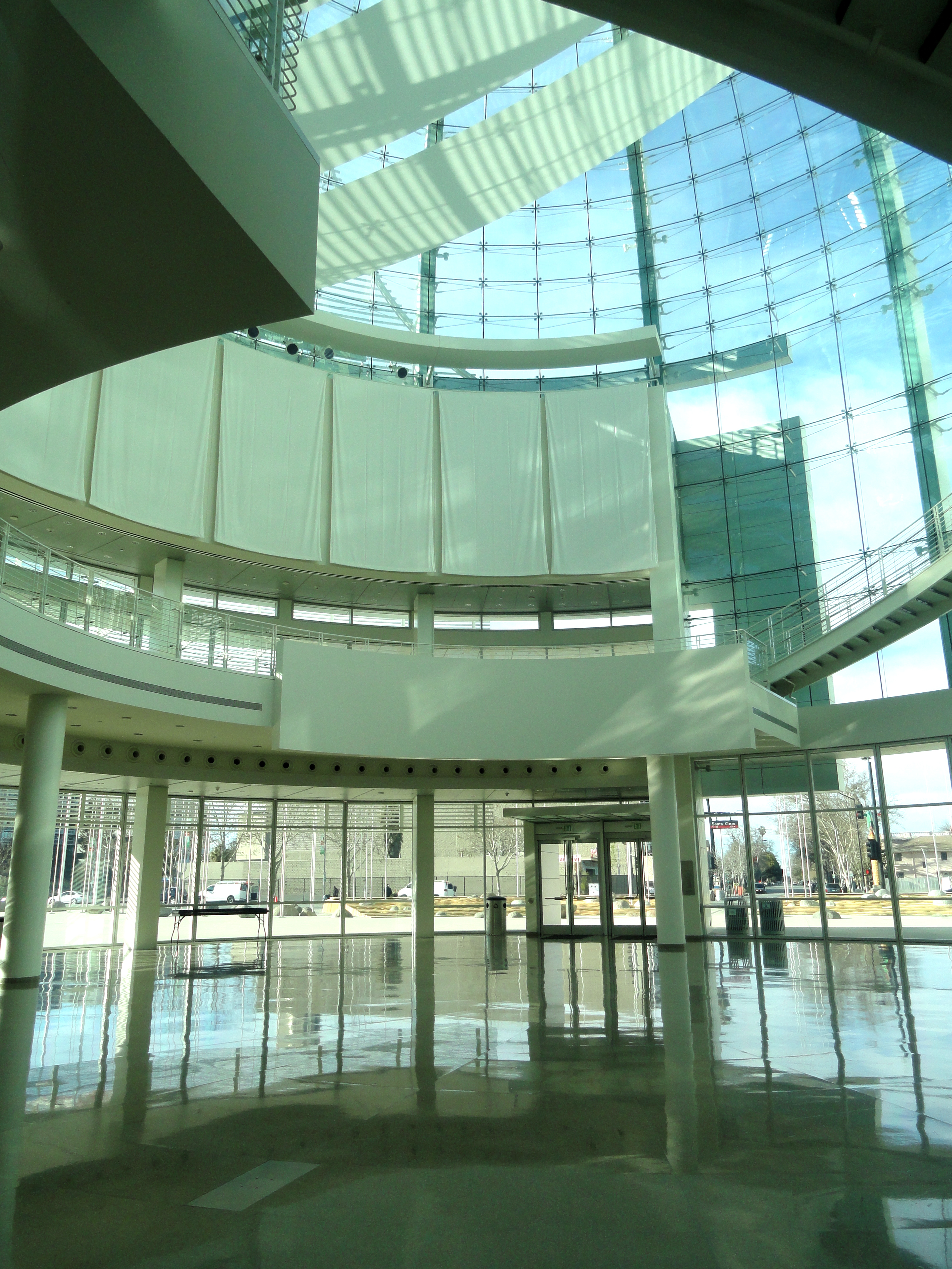 San Jose City Hall, San Jose, California, USA.